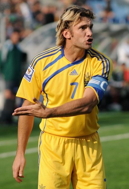 Andriy Shevchenko